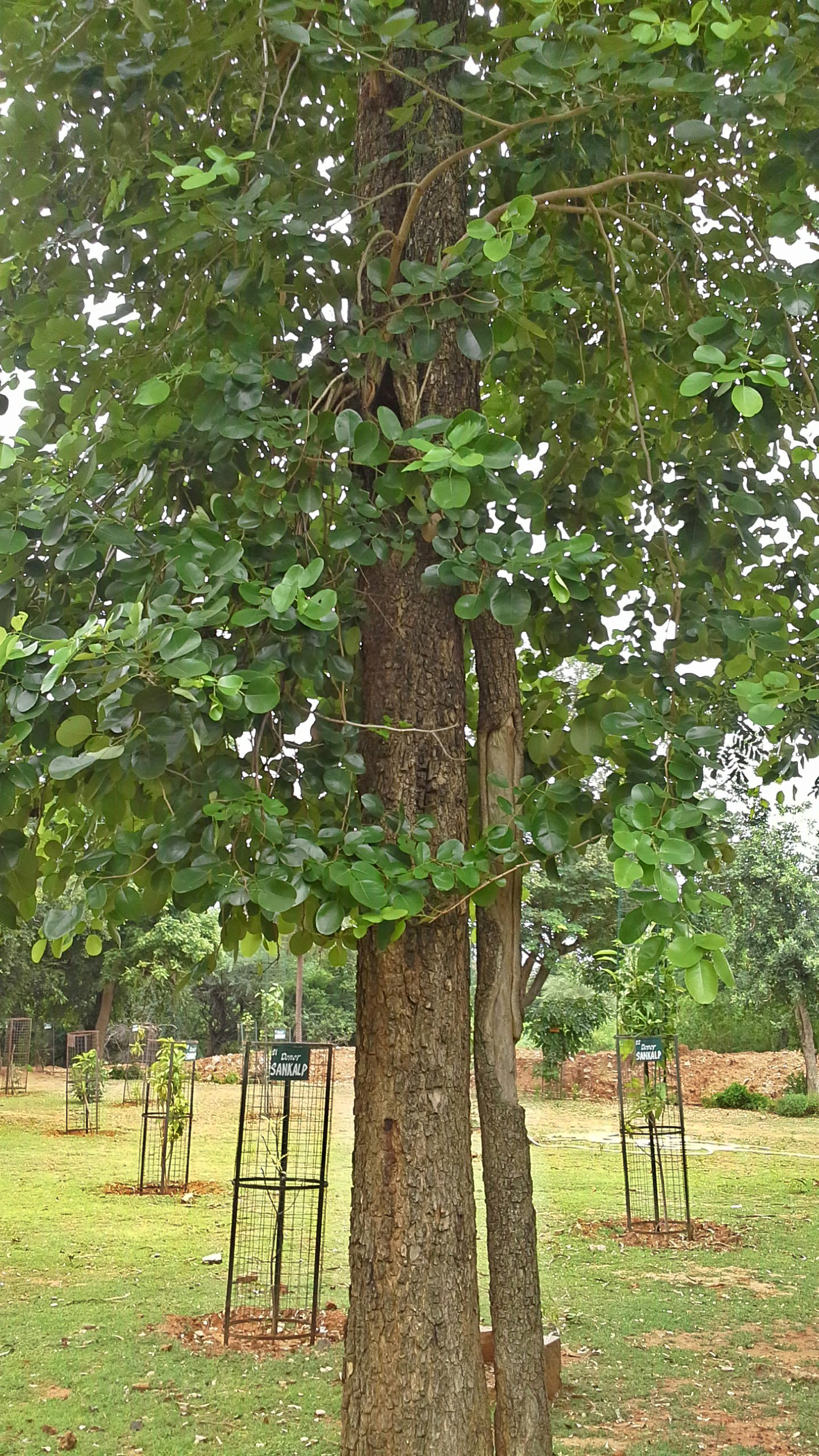 (Pterocarpus santalinus) red sandalwood tree at Indira Gandhi Zoo Park in Visakhapatnam